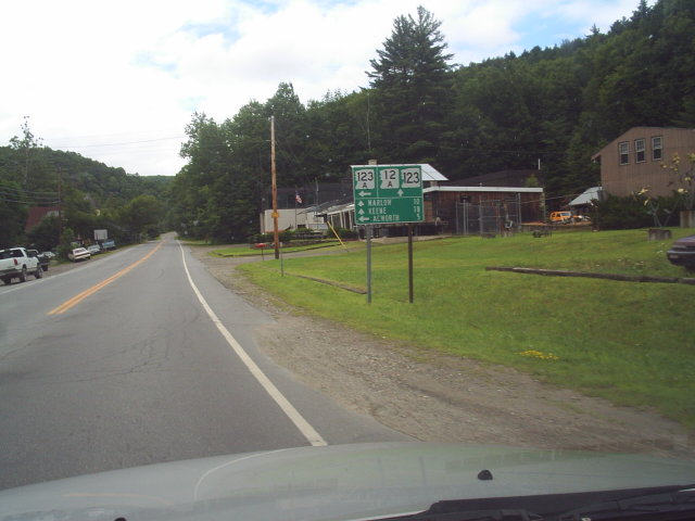 Junction with New Hampshire Route 123A on NH 123/NH 12A